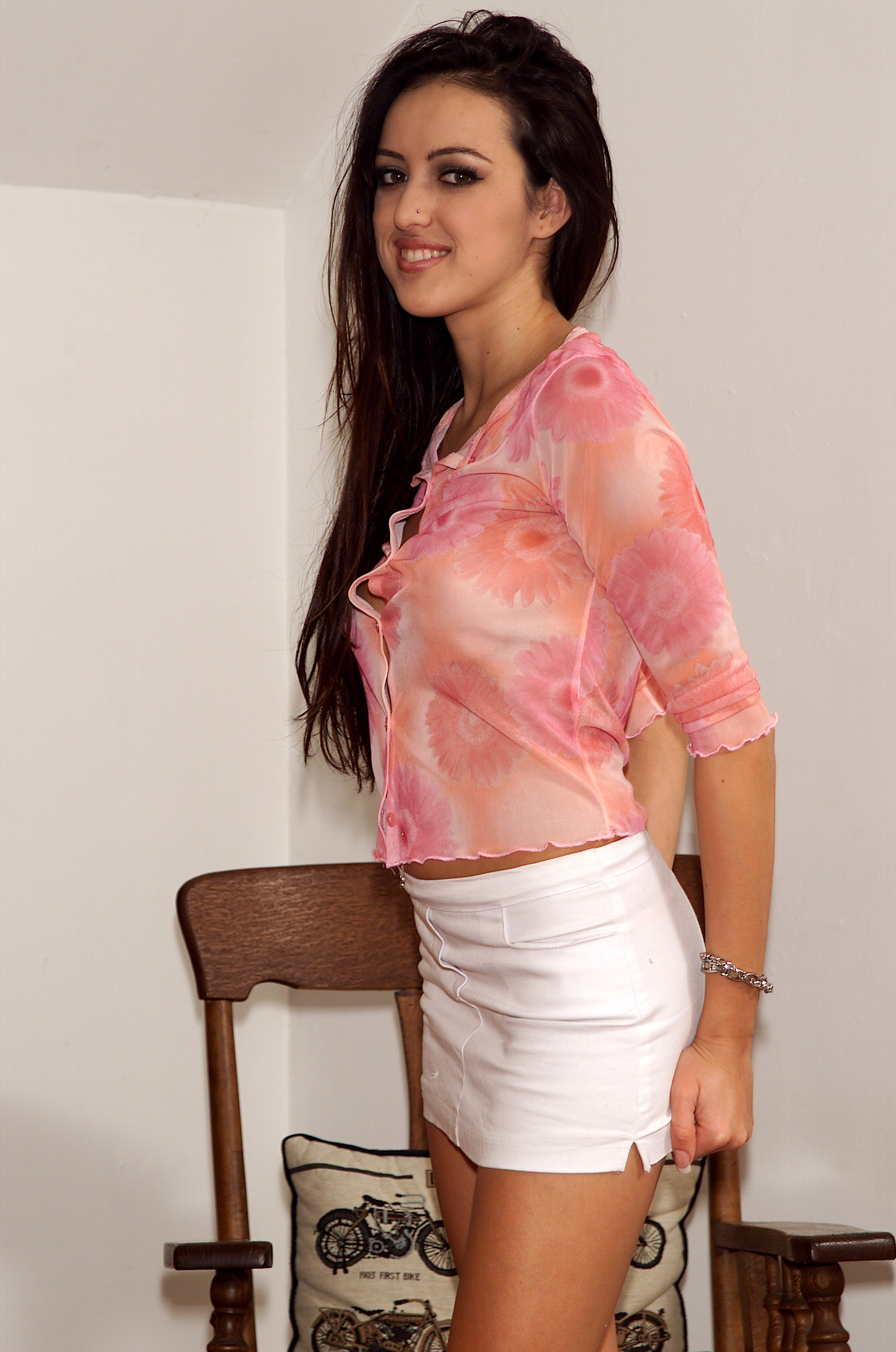 Breanne Benson 2004 (=early appearance)